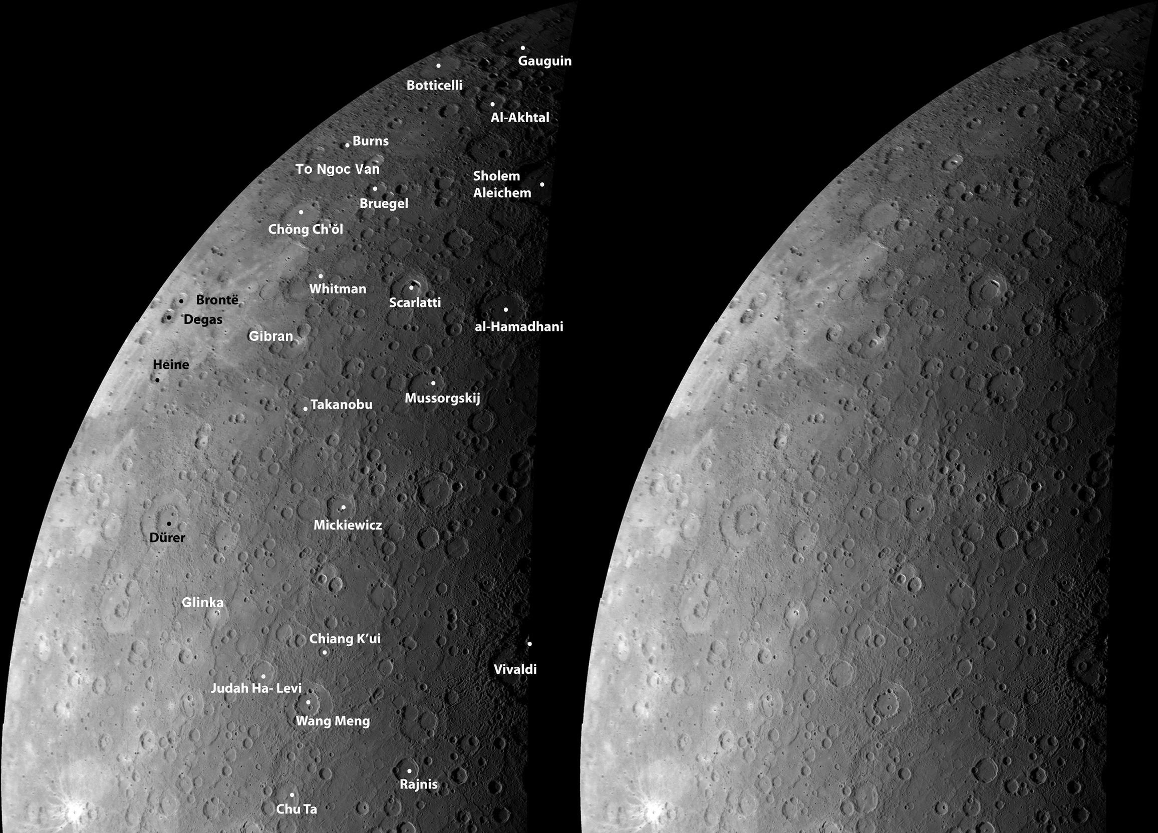 Named impact craters on Mercury